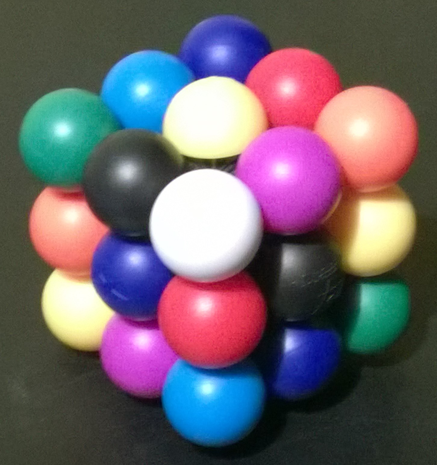 Meffert's Molecube in its solved state.